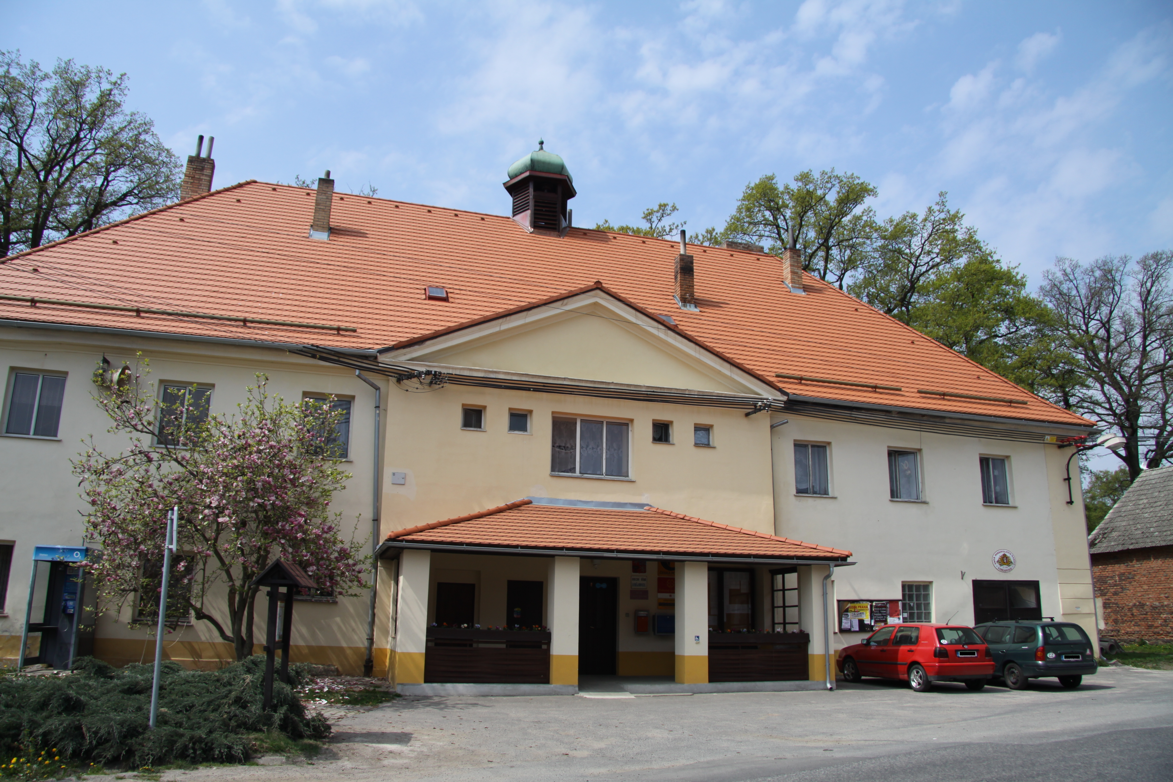 Municipitality office in Libějovice village, Strakonice District, Czech Republic - Google Maps - Google Earth